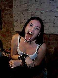 Talena Atfield, Canadian bass guitar player, best known as a former member of Kittie.